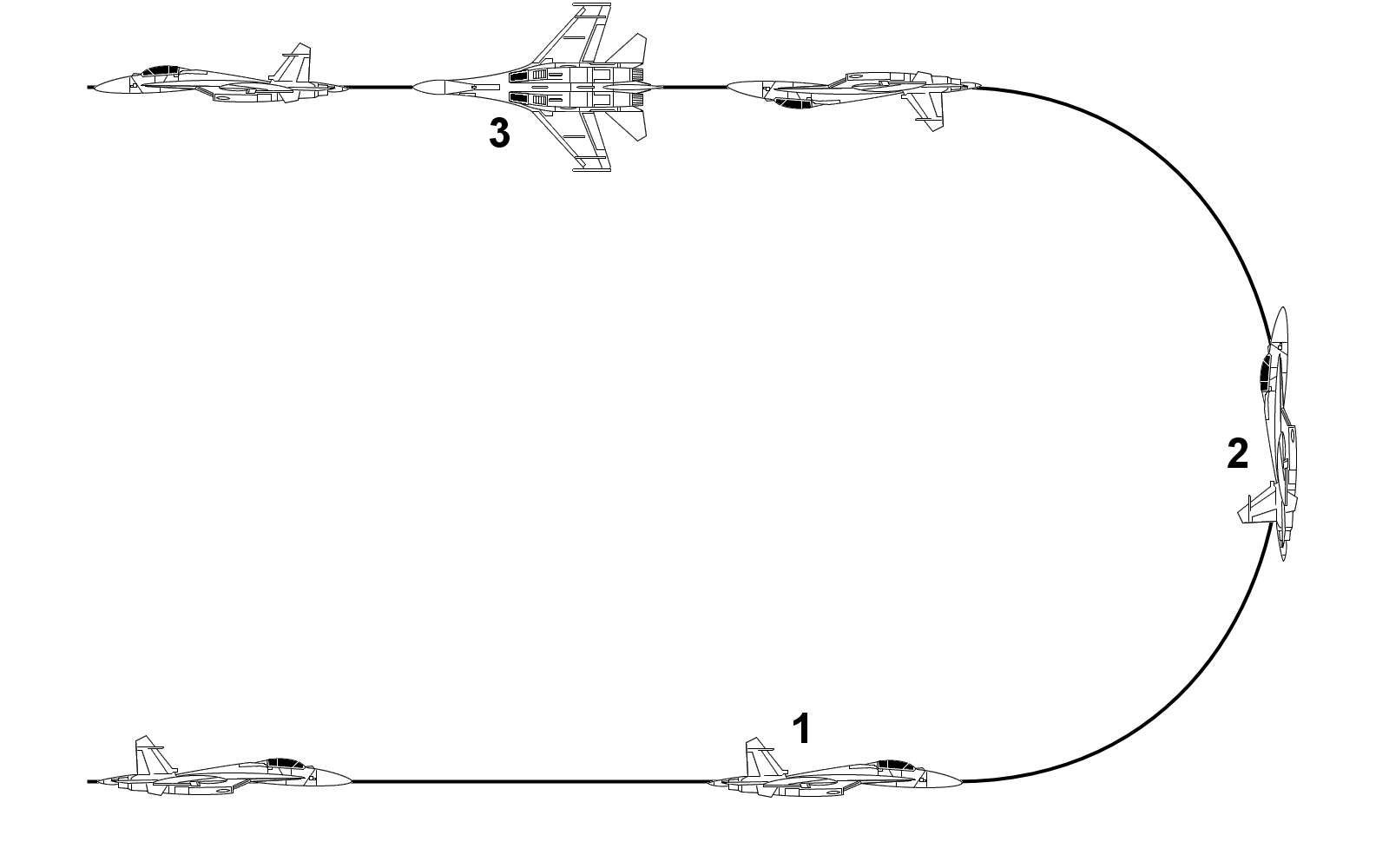 Schematic view of an Immelmann turn